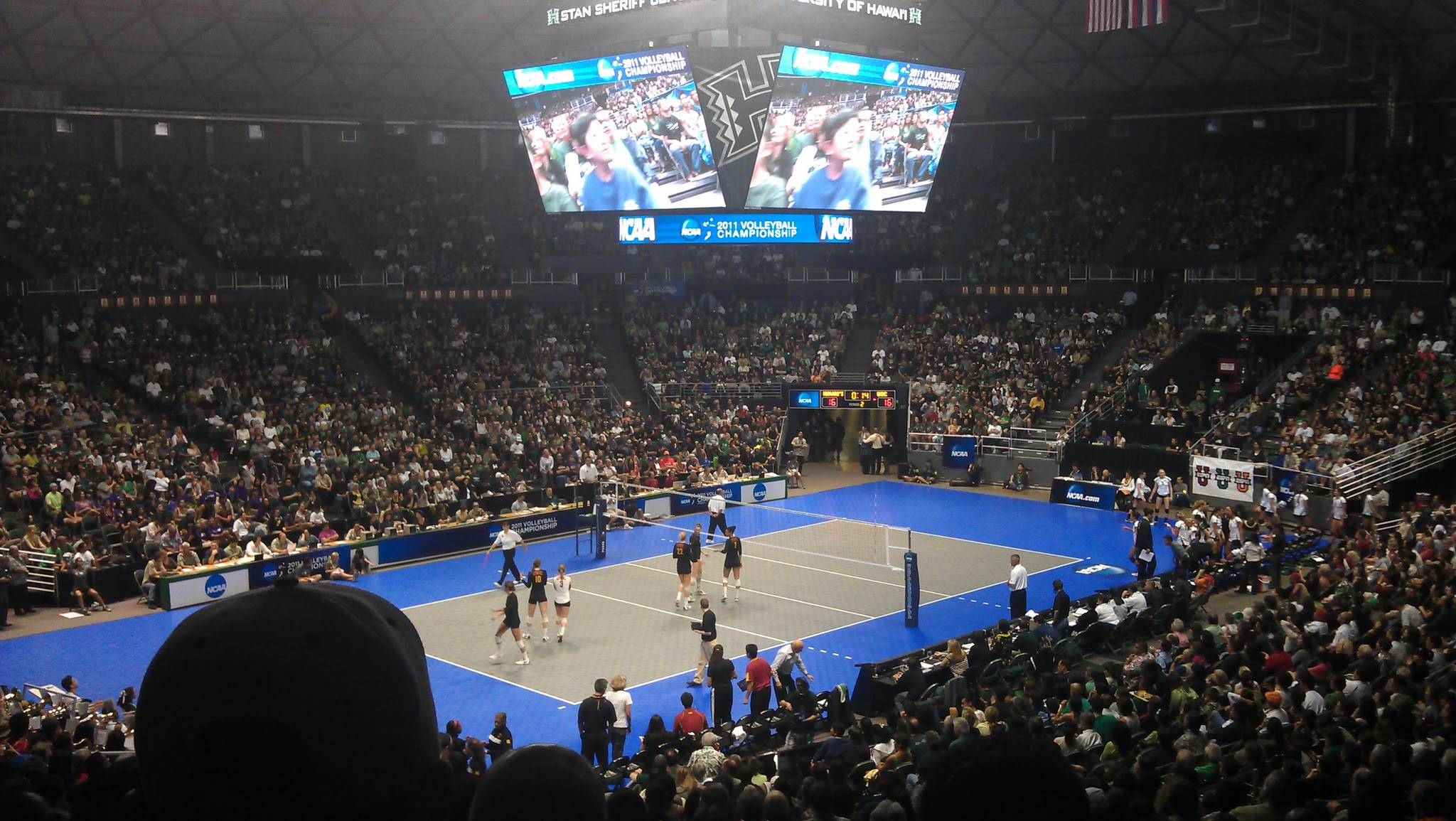 Hawaii vs USC Womens Volleyball Match. The Attendance was 10,030... A Sold out Match.